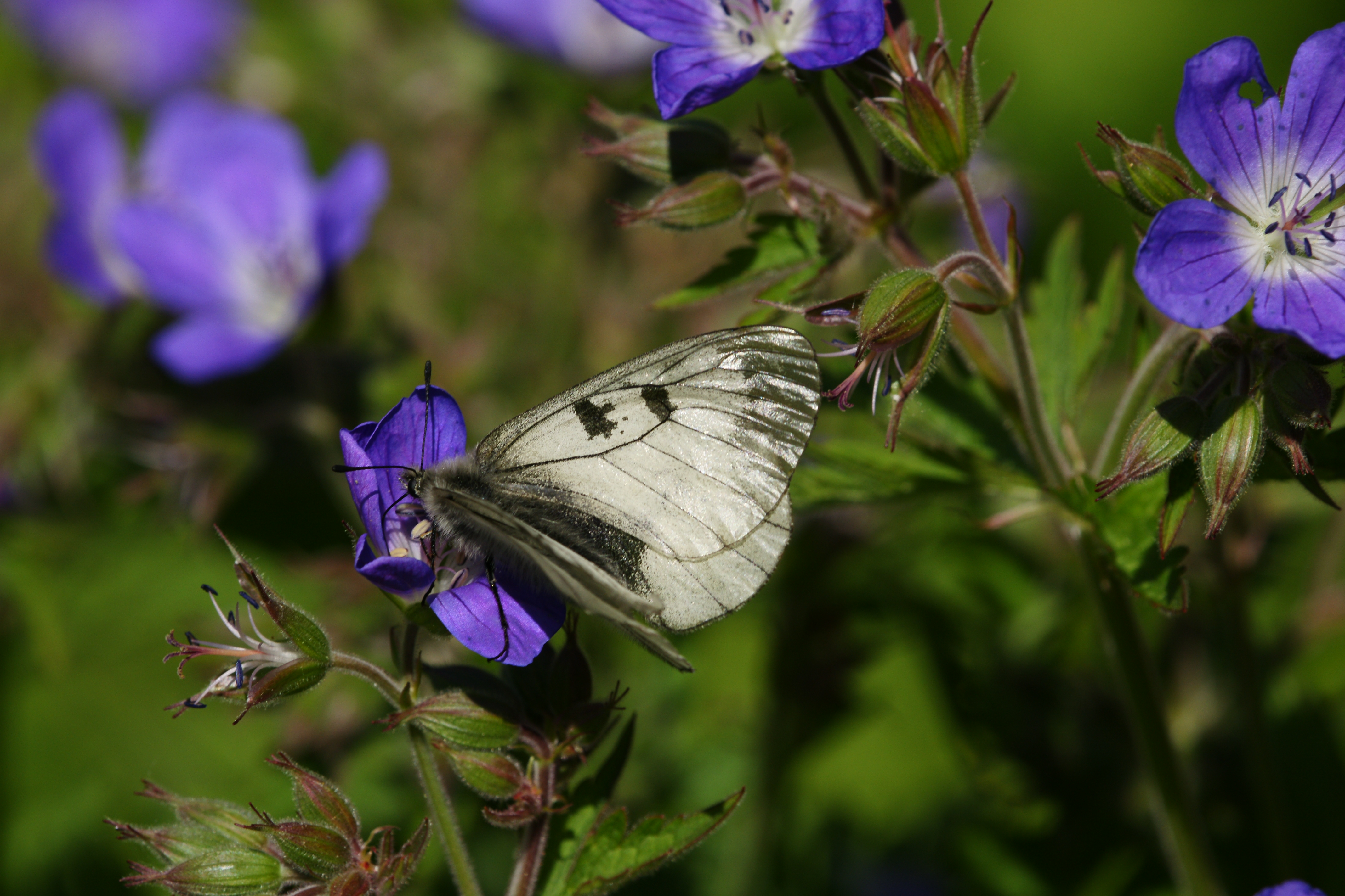 The Clouded Apollo (Parnassius mnemosyne) is a butterfly species of the family of Swallowtail butterflies (Papilionidae) found in Eurasia.